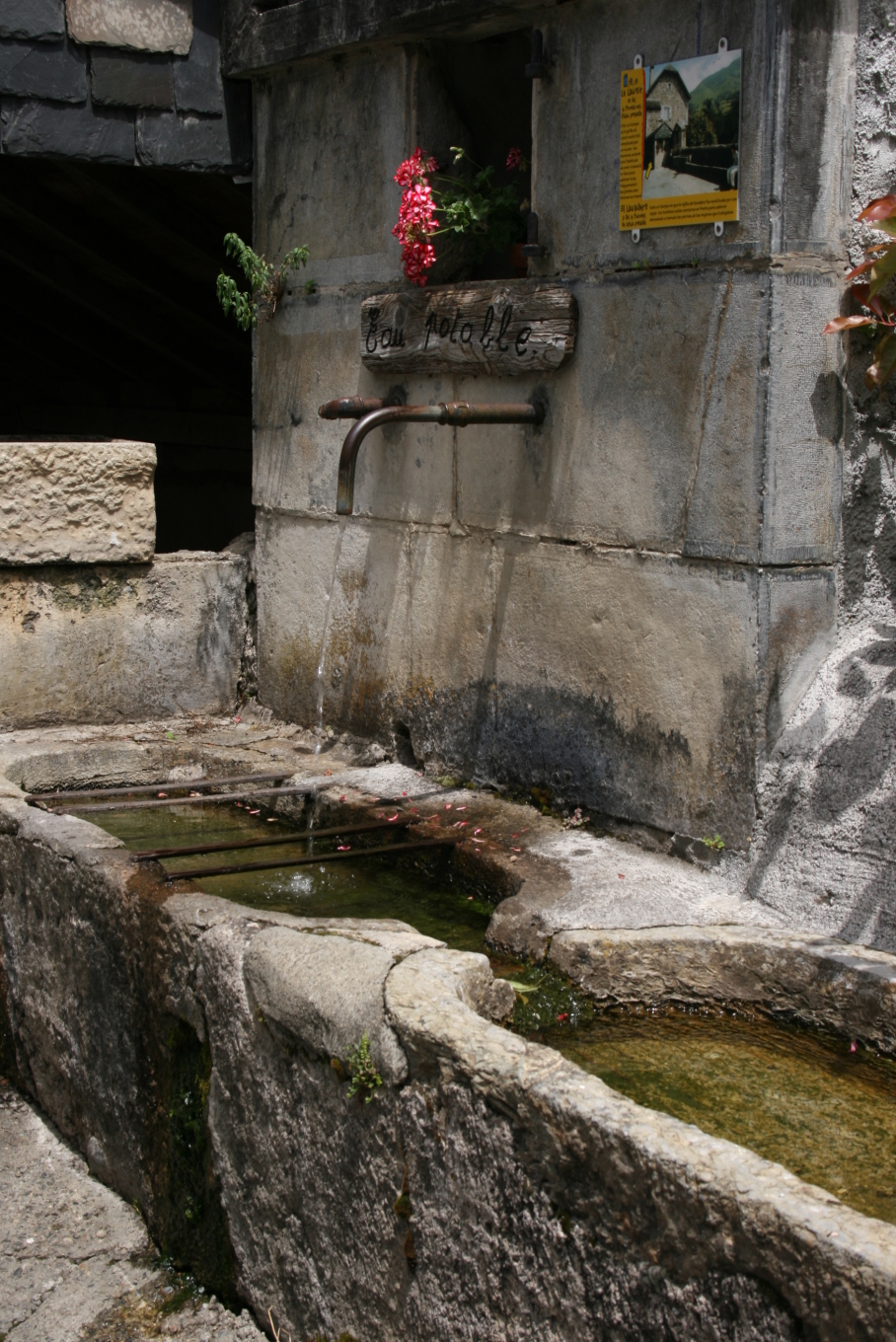 A vat in the medieval village of Borce, placed at the upper end of the Aspe valley, Béarn (now Pyrénées-Atlantiques), France. Here the pilgrims on the road to Santiago de Compostela may get drinking water and have a wash.